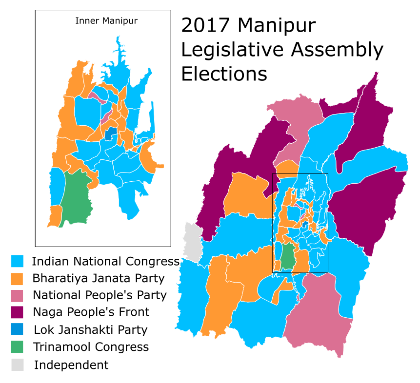 A map showing the results of the Manipur Legislative Assembly election, 2017.